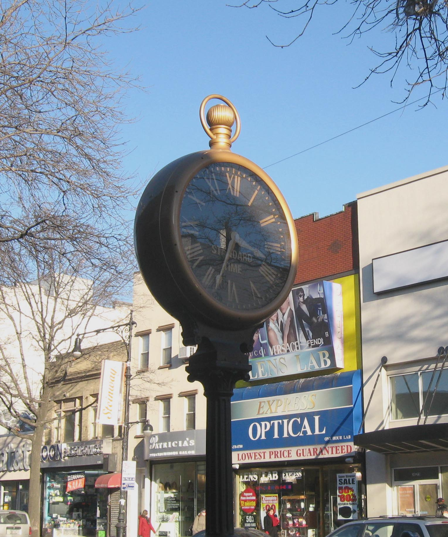 Looking northeast at 30-78 Steinway Street clock, too late on a sunny afternoon.